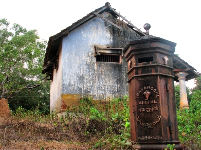 Anchal post box of the Kingdom of Travancore, which was absorbed by India in 1958.